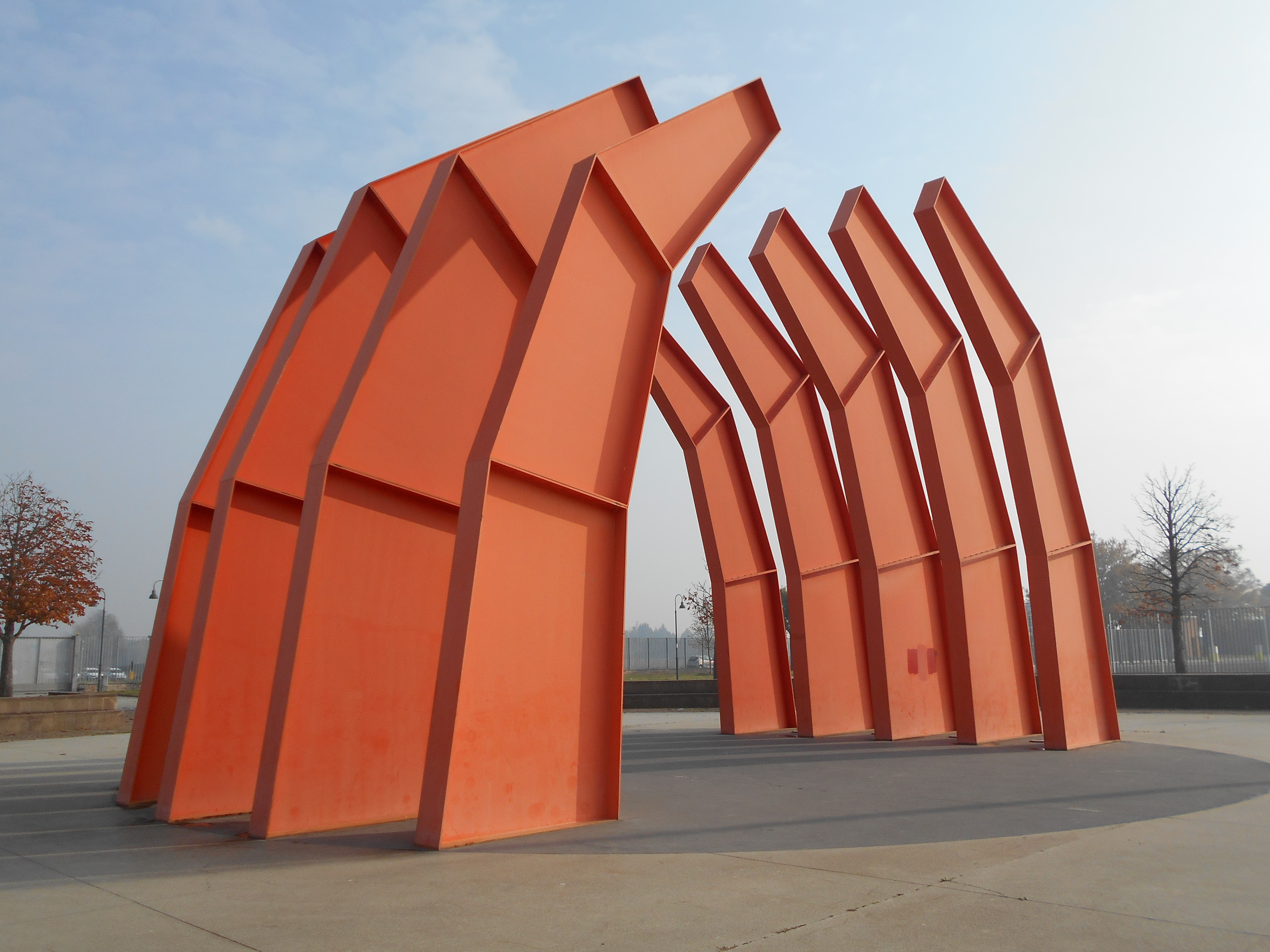 Alberto Burri, Il Grande Ferro R